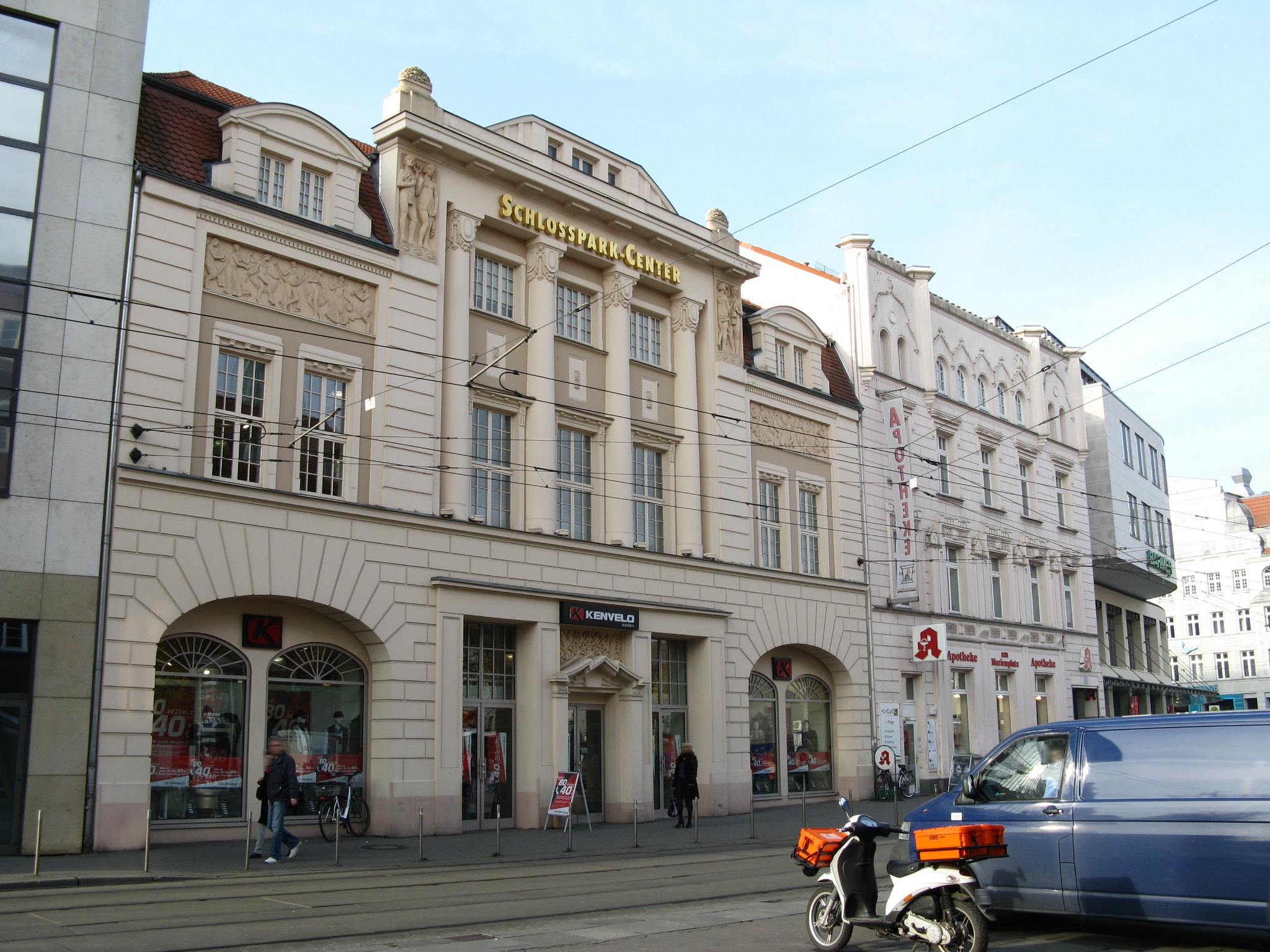 Square Marienplatz in Schwerin, Mecklenburg-Vorpommern, Germany